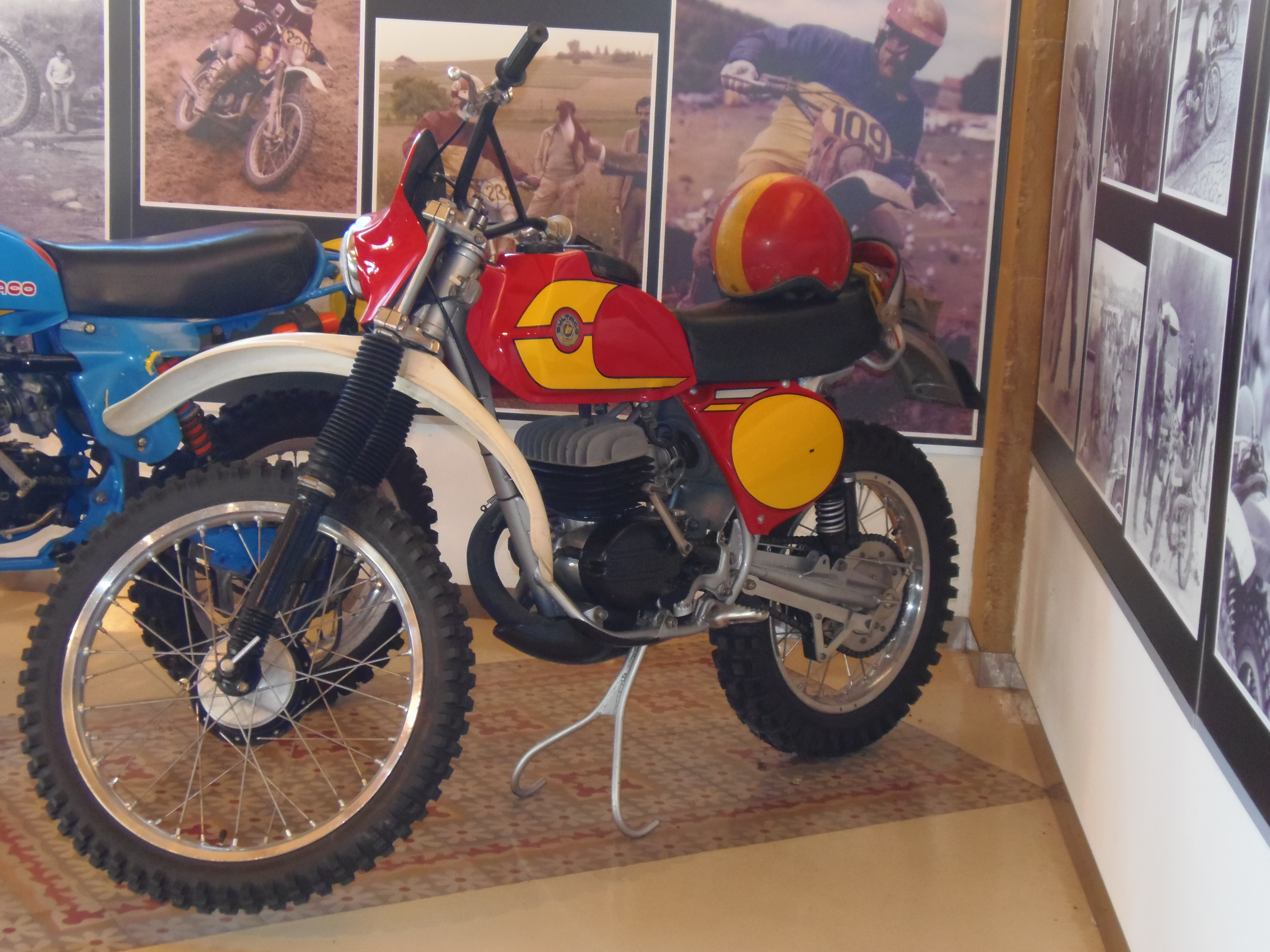 Toni Soler's works Bultaco Frontera 250 prototype. It was built with several parts of Bultaco Pursang 125 and Bultaco Frontera. Soler won a gold medal on it at 1976 ISDT (held in Zeltweg, Austria)